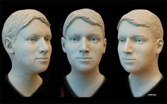 Unidentified male whose cranium was discovered in 1990